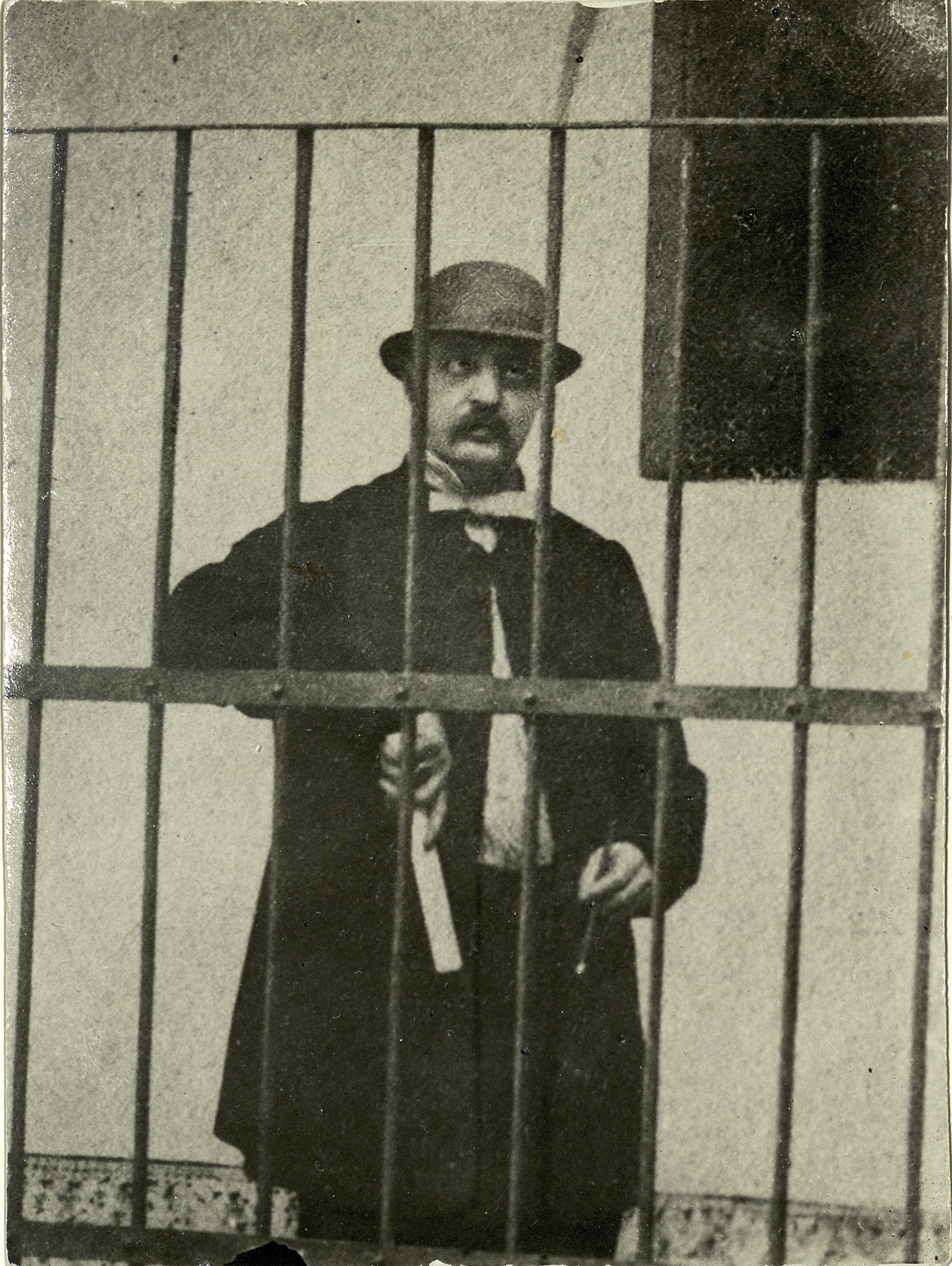 Miroslav Vilhar (1818-1871)